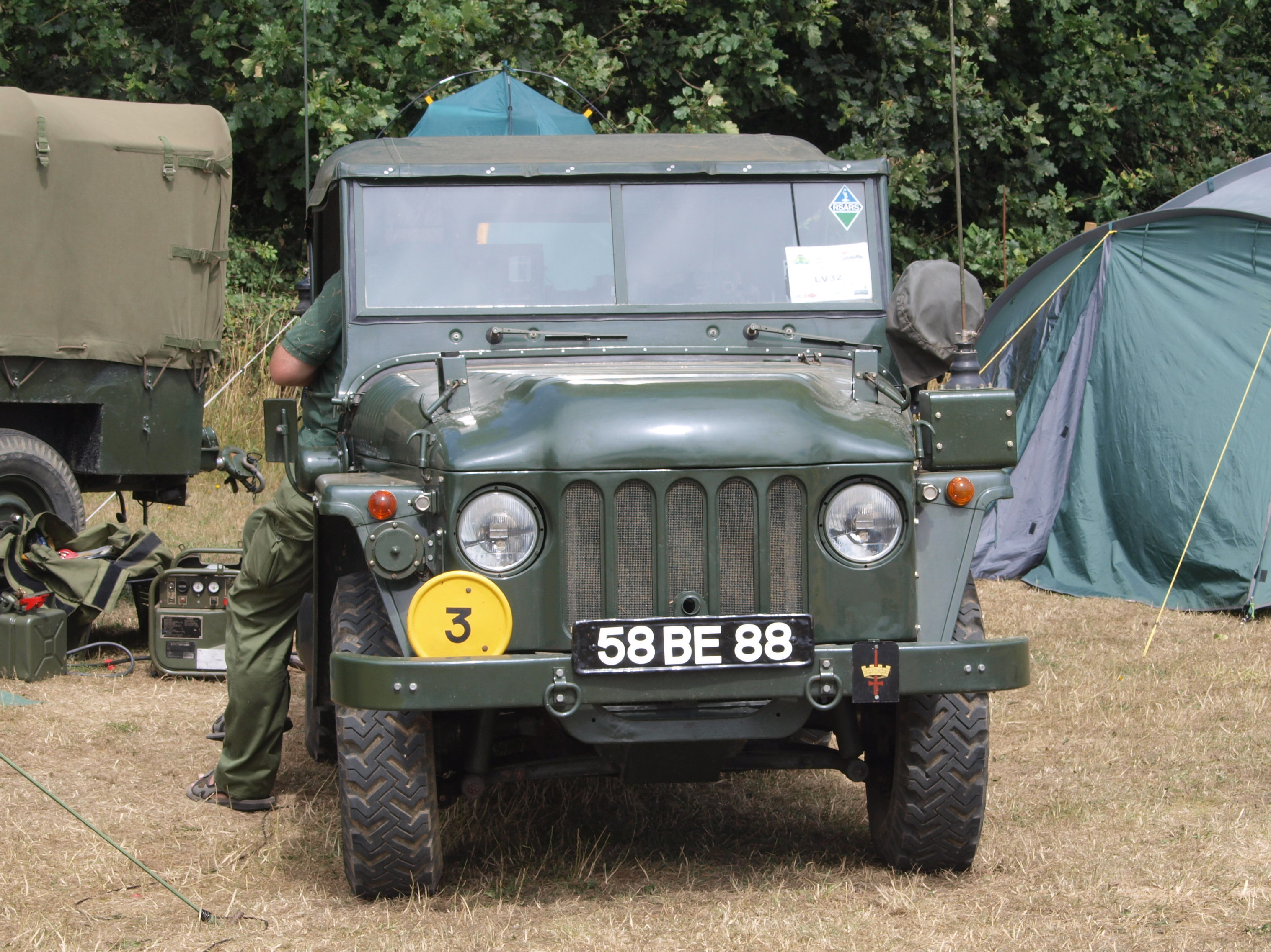 Austin Champ FV1801(A) FFR (1954) owned by Andy Jackson.